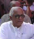 Buddhadev_Bhattacharjee, chief minister of West Bengal 2000–2011